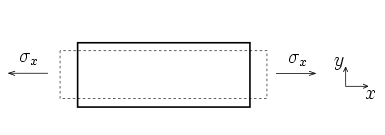 Poisson coefficient illustration